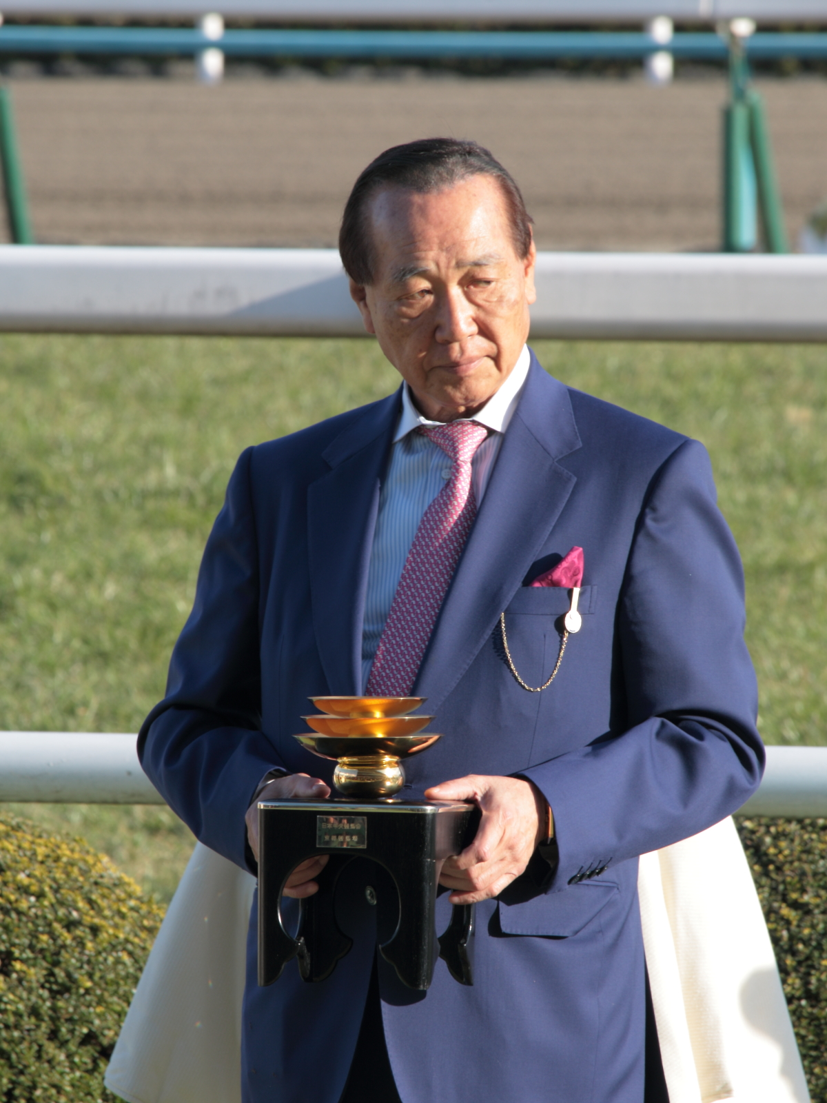 Hajime Satomi (Chairman, CEO, President and Director of Sega Sammy Holdings).